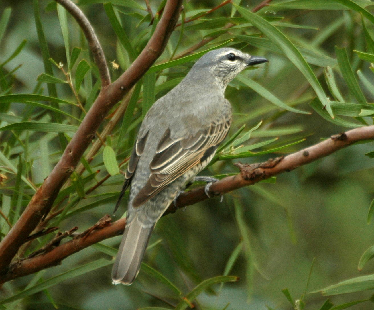 Female Cicadabird Coracina tenuirostris Kobble Creek, SE Queensland, Australia